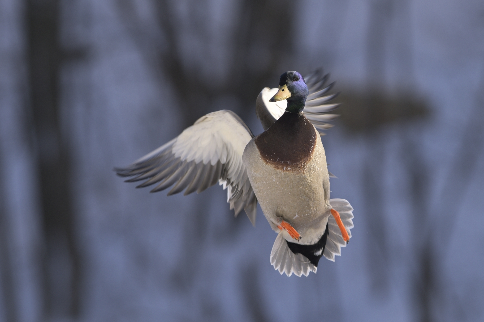 Taken this mallard drake which makes a turn